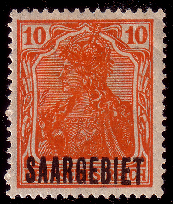 Postage stamp for Saar, 10 pfennigs, 1920